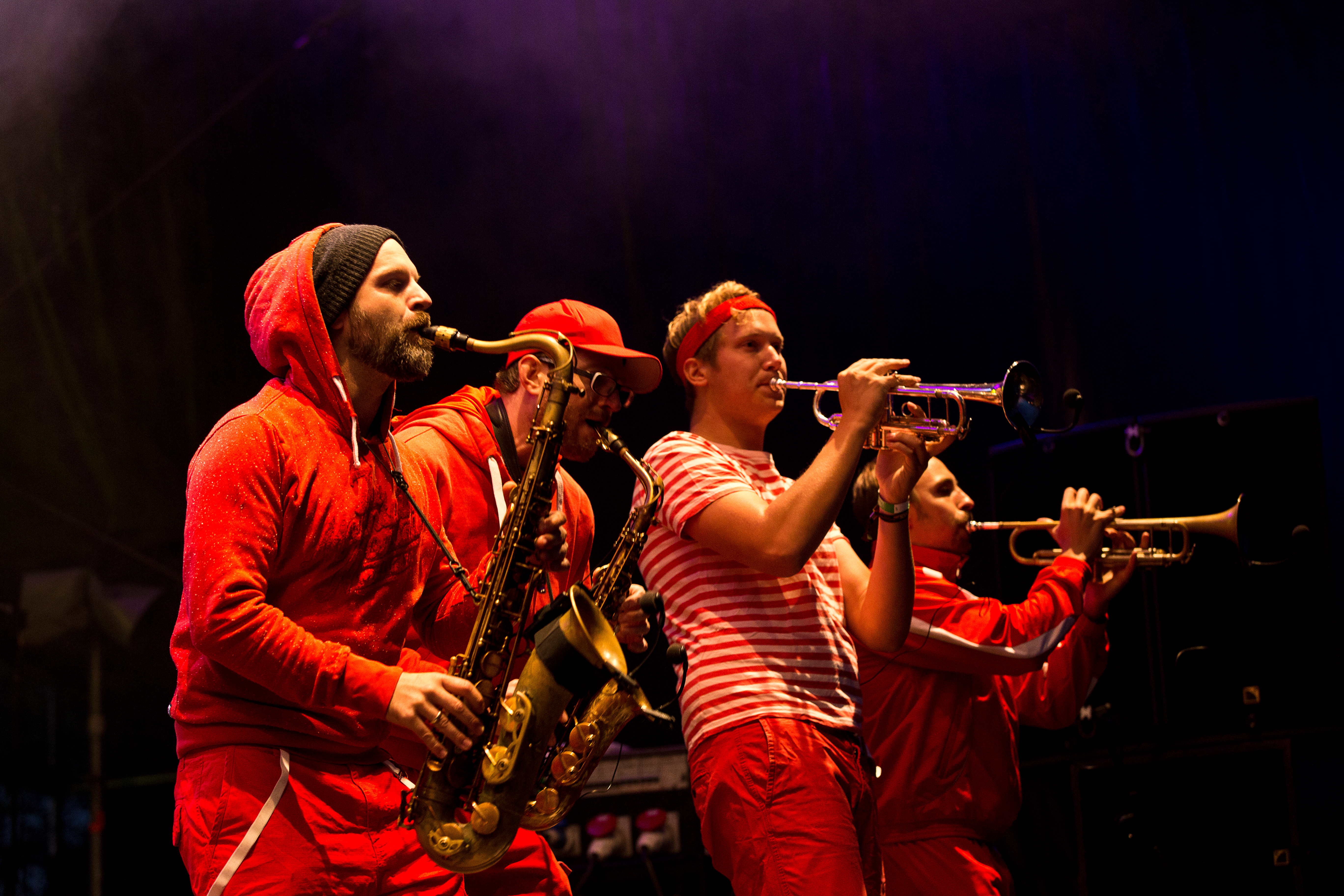 The German brass band Moop Mama at the "Rocken am Brocken" Open Air 2015 in Elend/Germany.